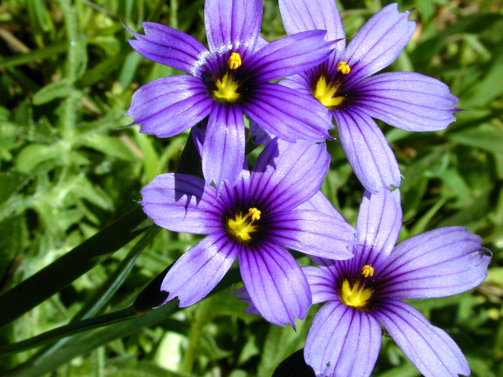 Western blue-eyed grass. Found along the footpath between the parking lot and Canyon Trail in a grassland on the south face of a hill at Monte Bello Open Space Preserve. Part of the Midpeninsula Regional Open Space District system. (eNature) (Geotagged)